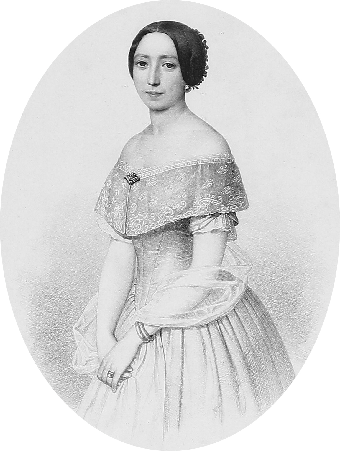 Caroline Kellermann 19th century